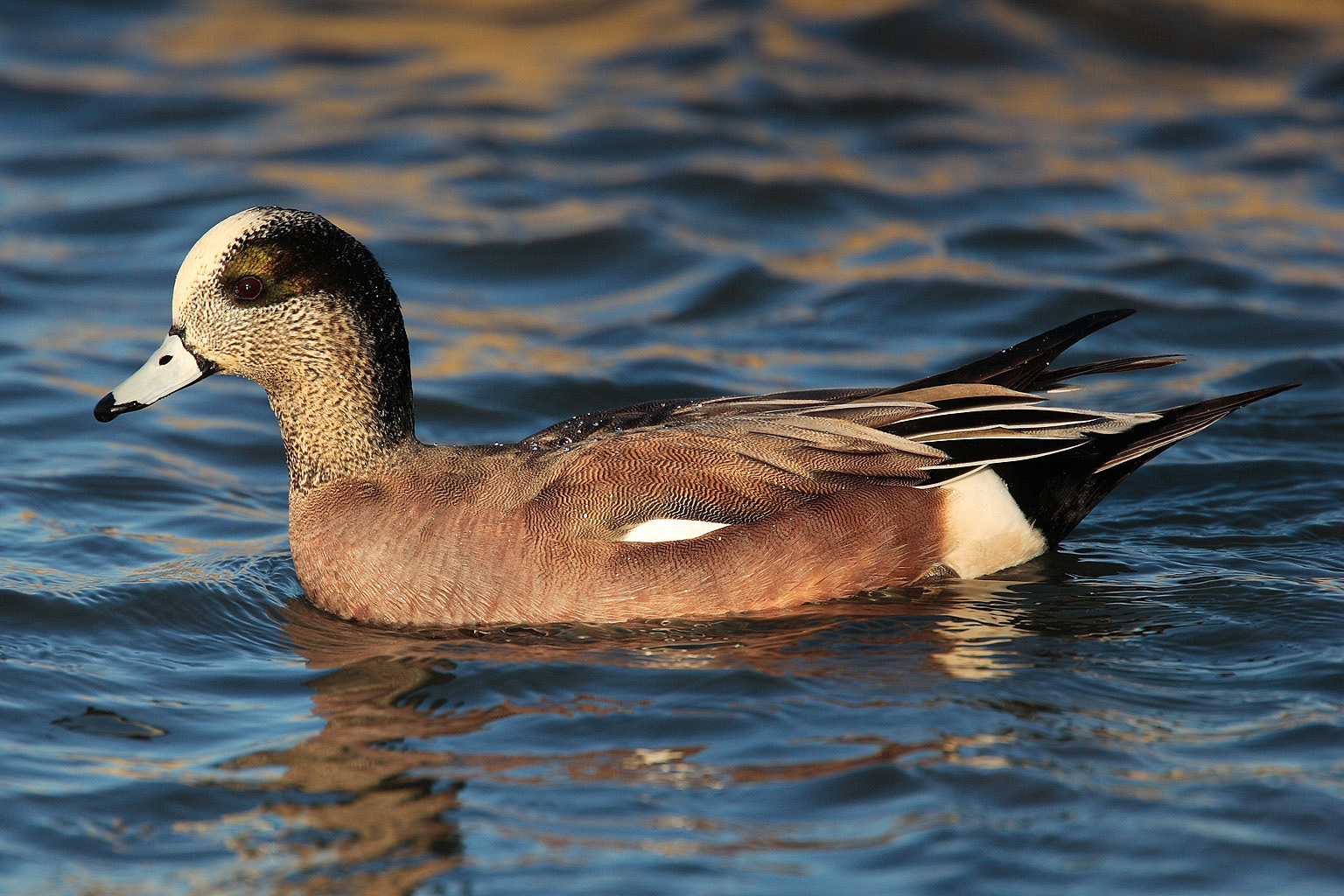 American Widgeon -- Humber Bay Park (East), Toronto, Canada -- 2006 March